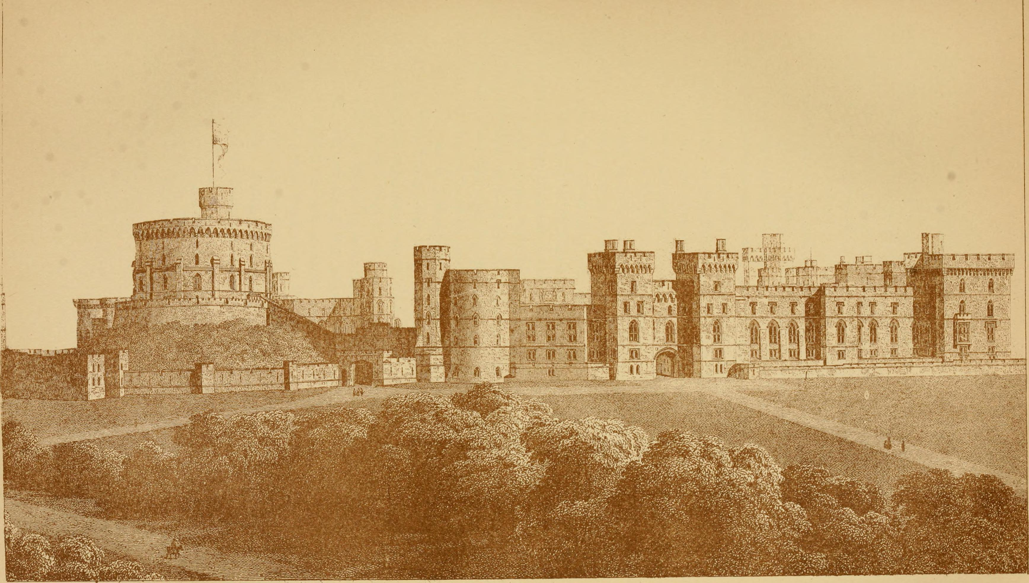 Title: The imperial island; England's chronicle in stone; Year: 1886 (1880s) Authors: Hunnewell, James Frothingham, 1832-1910 Subjects: Architecture Publisher: Boston, Ticknor Text Appearing Before Image: 1 r ■ Text Appearing After Image: WINDSOR CASTLE. 89 Sir Jeffry Wyatville, was the architect under whose direction, in the course of a few years, it was given its present form and aspect. The extent and thoroughness of the restoration, or rebuilding, the largest work of the sort in England, is indicated by the amount spent during three years, £388,000, and by the many illustrations in the sumptuous atlas foliol published for the executors of Sir Jeffry. The edifice does not show reproduction of former designs or imitation of old forms so much as it does a new work in an ancient national style modified; for it is not a mediaeval castle, but a modern palace built in castellated and civil varieties of the Pointed style, with the old spirit that adapted them to new uses to be served. The result is one of the most appropriate, majestic, and picturesque palaces in the world. It crowns a height with an enormous diadem of battlemented walls and towers, strong with their pale gray stone, but cheerful with their traceried windows, and ri